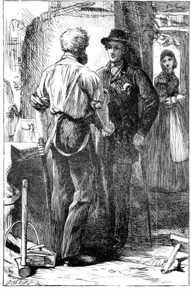 Pip bids farewell to Joe, by Marcus Stone